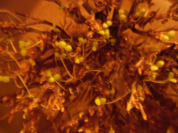 Sprouts on Anastatica in water